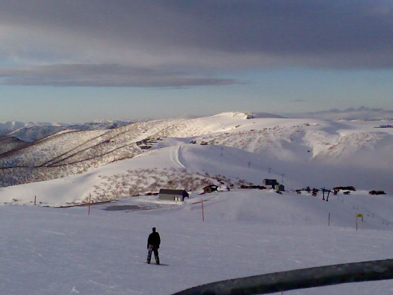 Mount Hotham, Victoria, Australia. Taken from the top of the Summit Chairlift.